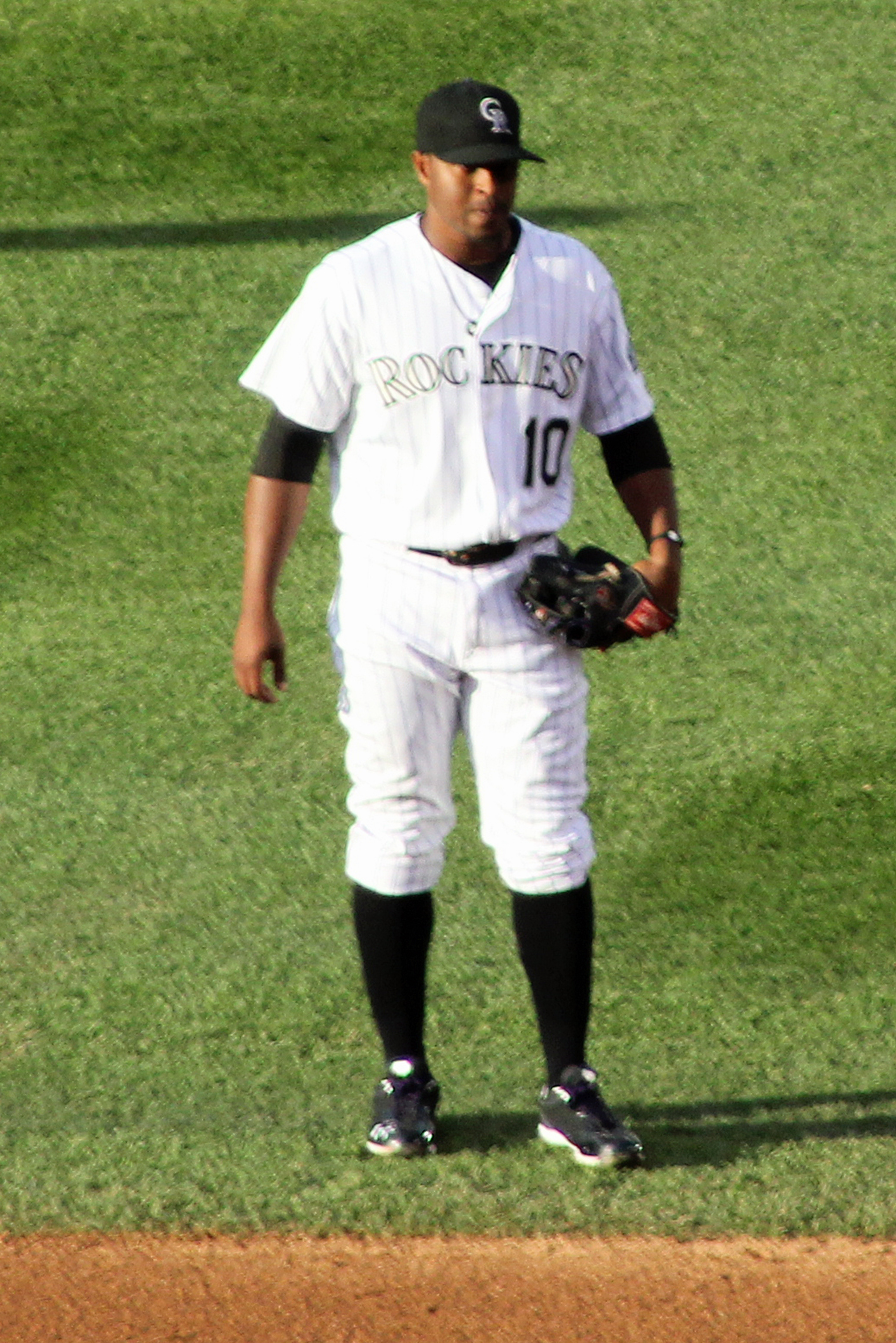 Chris Nelson, a major-league baseball player in the United States.